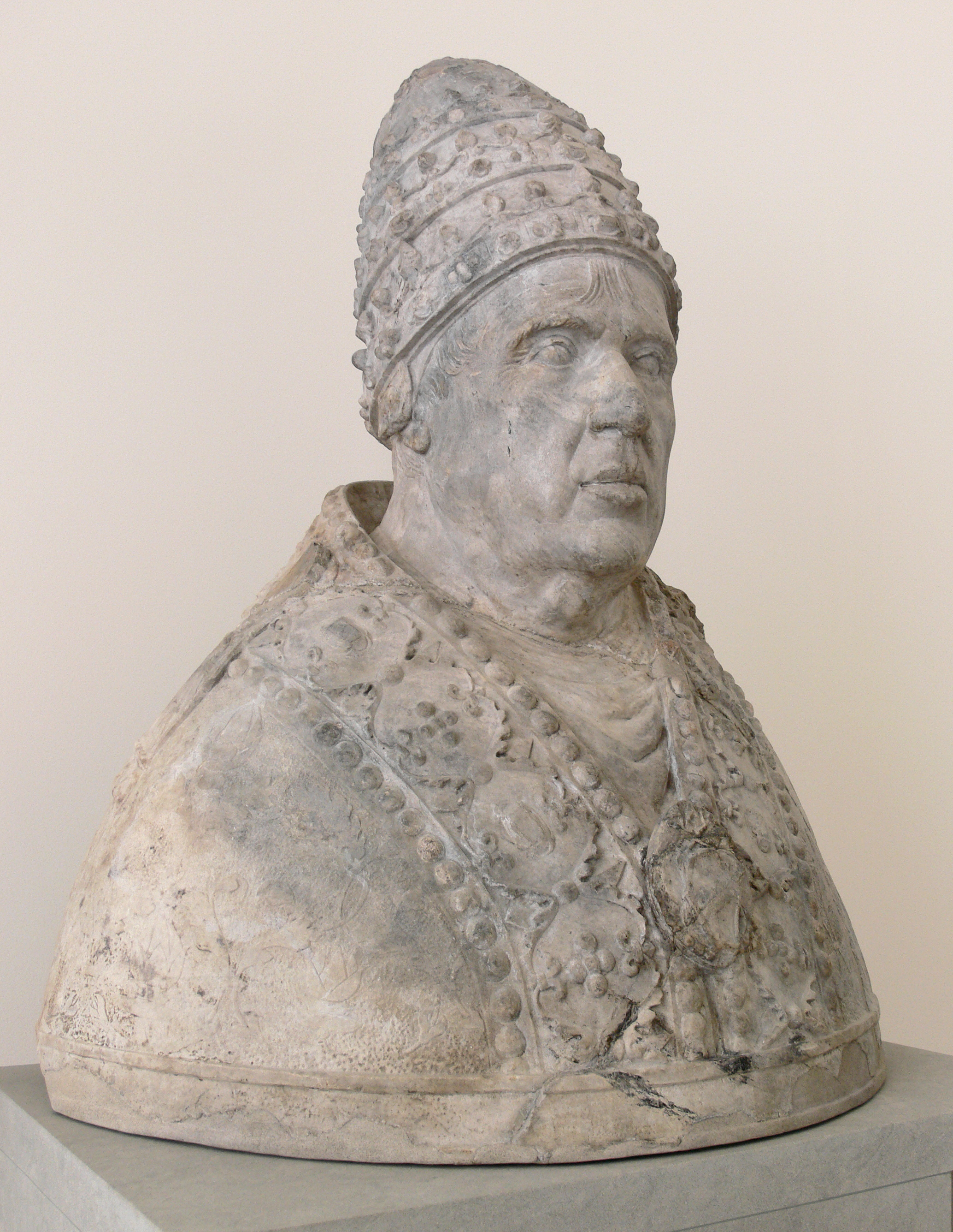 Portrait of Pope Alexander VI, Rome, late 15th century; marble; damaged in World War II in 1945